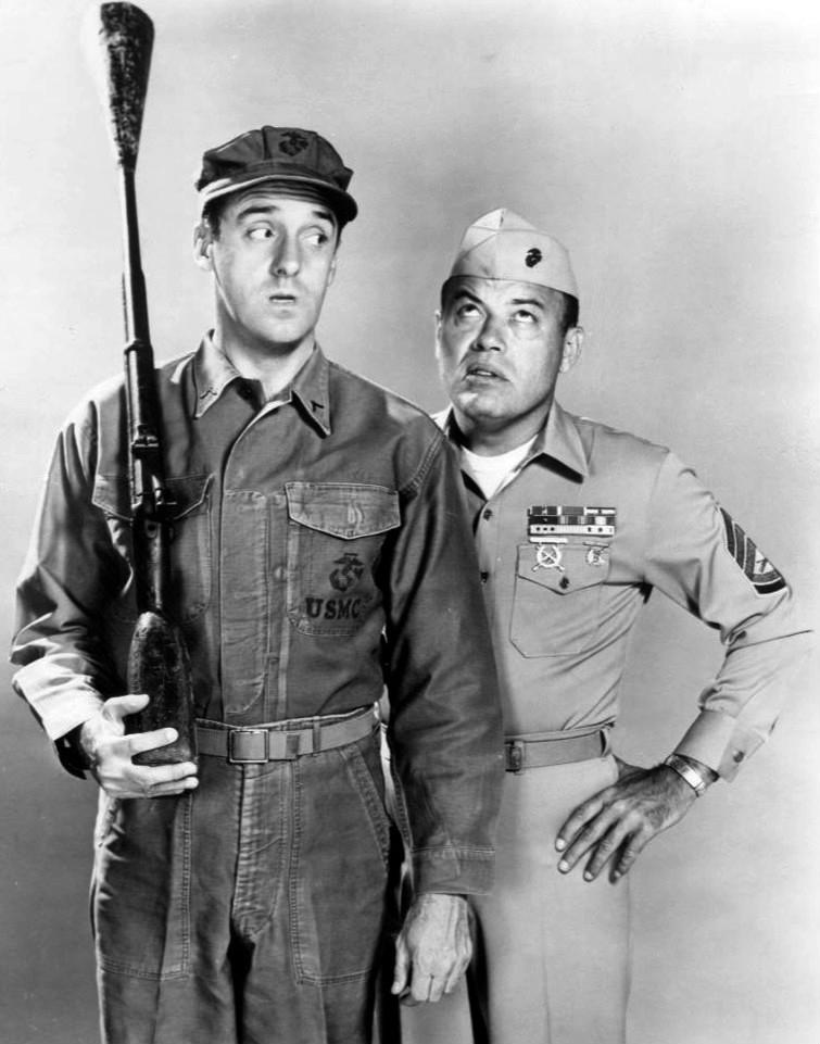 Publicity photo of Jim Nabors as Gomer Pyle and Frank Sutton as Sgt. Carter from the television program Gomer Pyle USMC.